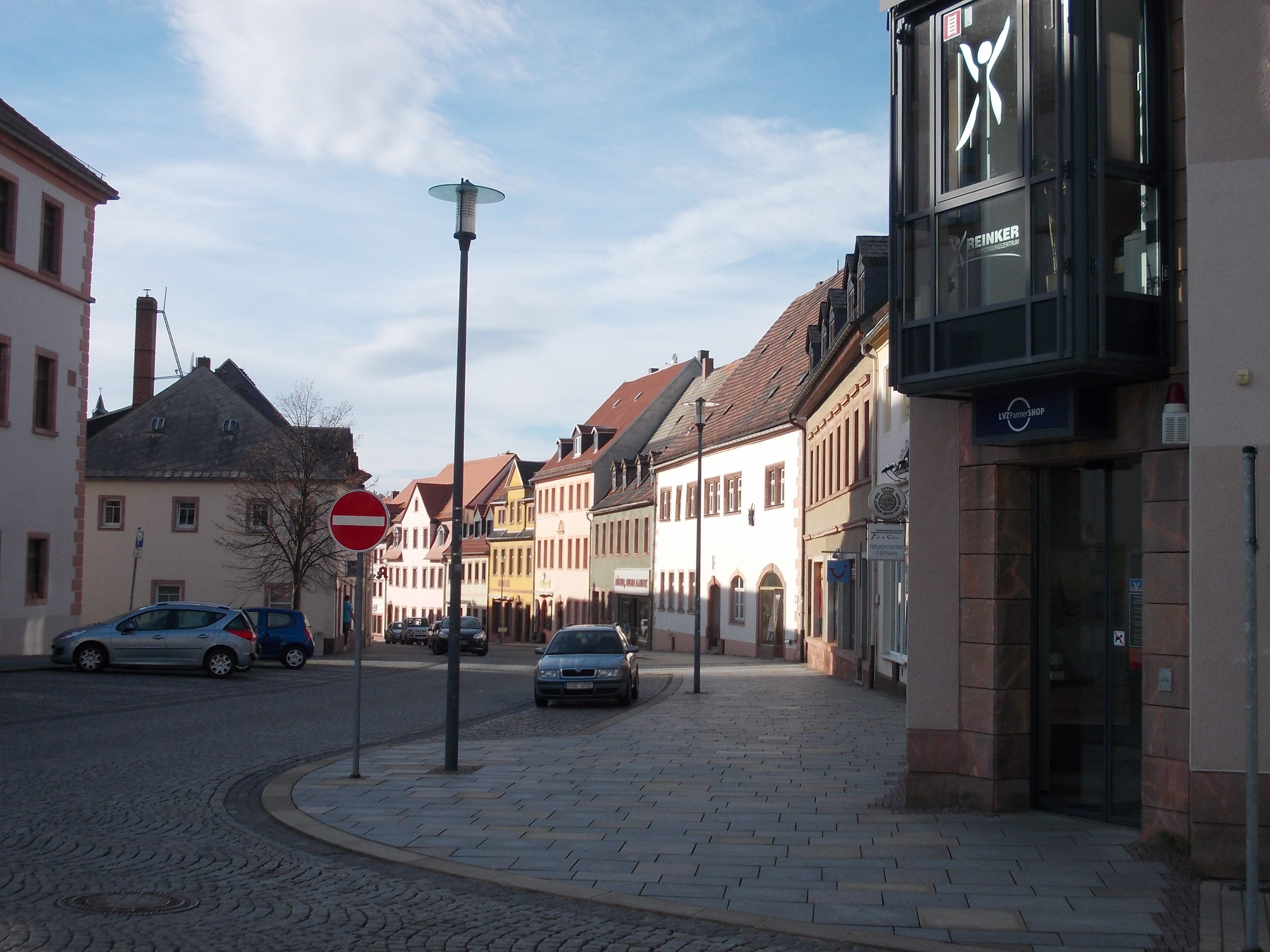 Western part of the market square in Geithain (Leipzig district, Saxony)